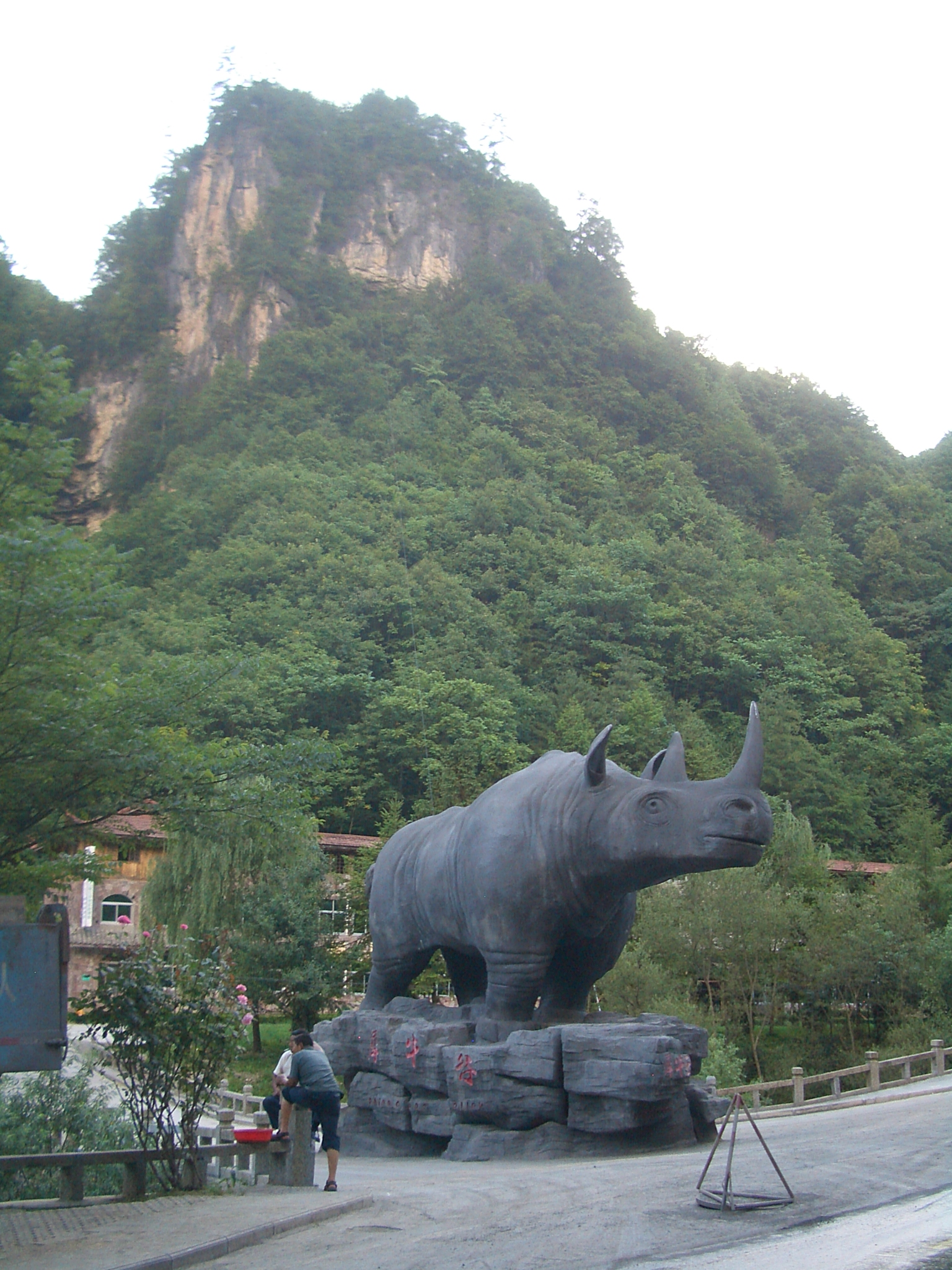 One of the rhinoceri welcoming the visitors to Hongping Town, Shennongia Forestry District. The area on the north side of the town has been proclaimed "Rhinoceros Valley" (Xiniu Gu) in honor of the prehistoric rhinoceros fossils found in a cave nearby.